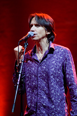 Christopher "Kipp" Lennon of the band Venice at the 2006 Ilse DeLange fanclub day on November 26th, 2006 in 013 concert hall, Tilburg, The Netherlands. Photo by me, Marco van den Hout. Licensed under Creative Commons Attribution license